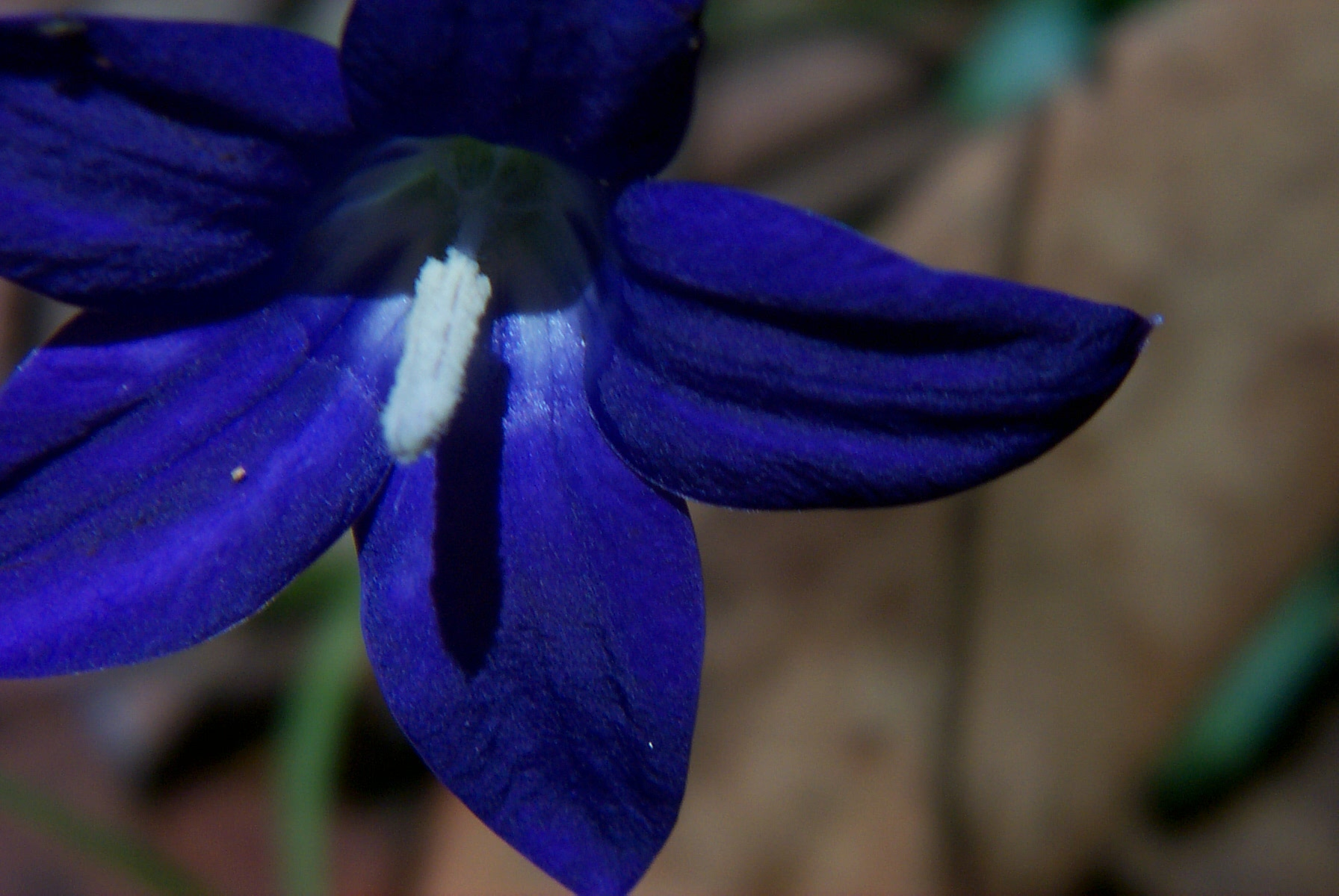 A close up of W. gloriosa showing the single (sometimes double) stamen and pollen flecks.